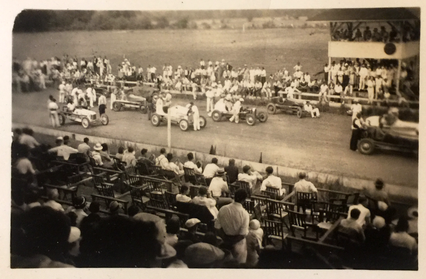 Auto racing at Sandusky County Fairgrounds in Fremont, OH (circa 1936). This photo was taken before the current speedway was constructed, and was taken by Floyd Slatter, Sr.